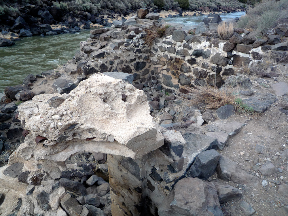 Ruins of the Manby bathhouse in the Rio Grande Gorge Posted in Hot Tubbin' on the Rio Grande.